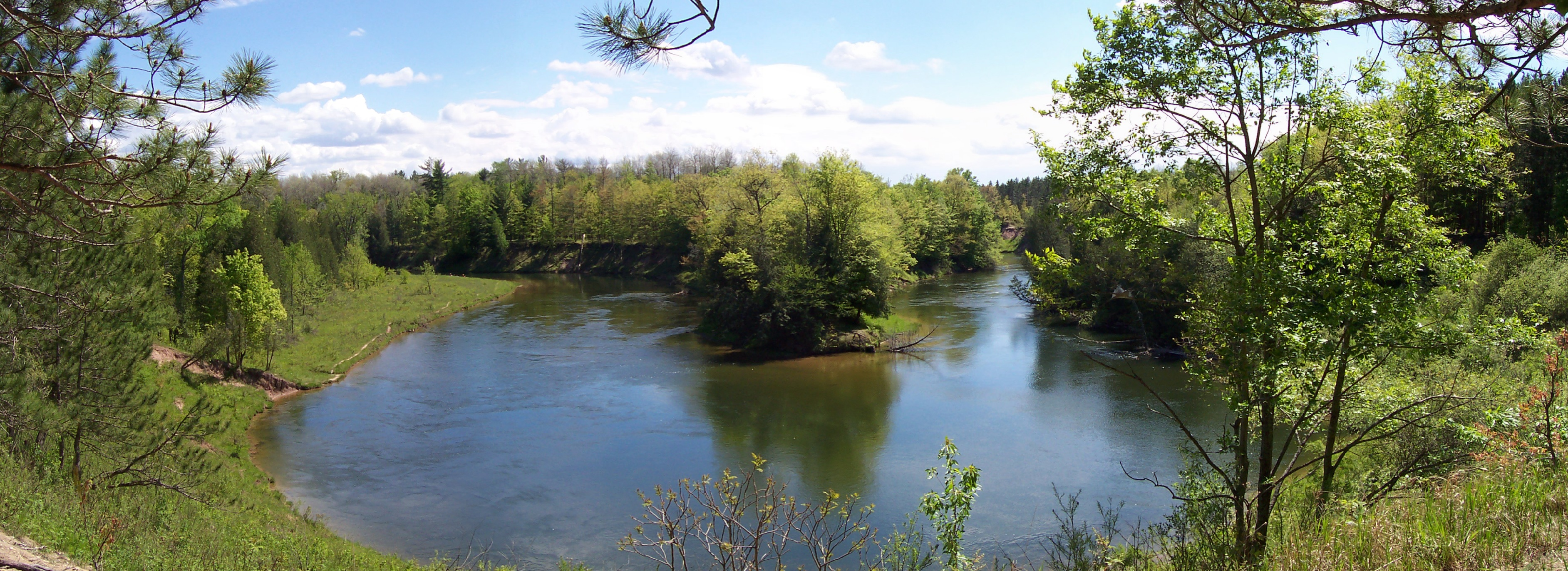 Taken from the North Country Trail taken May 2005.